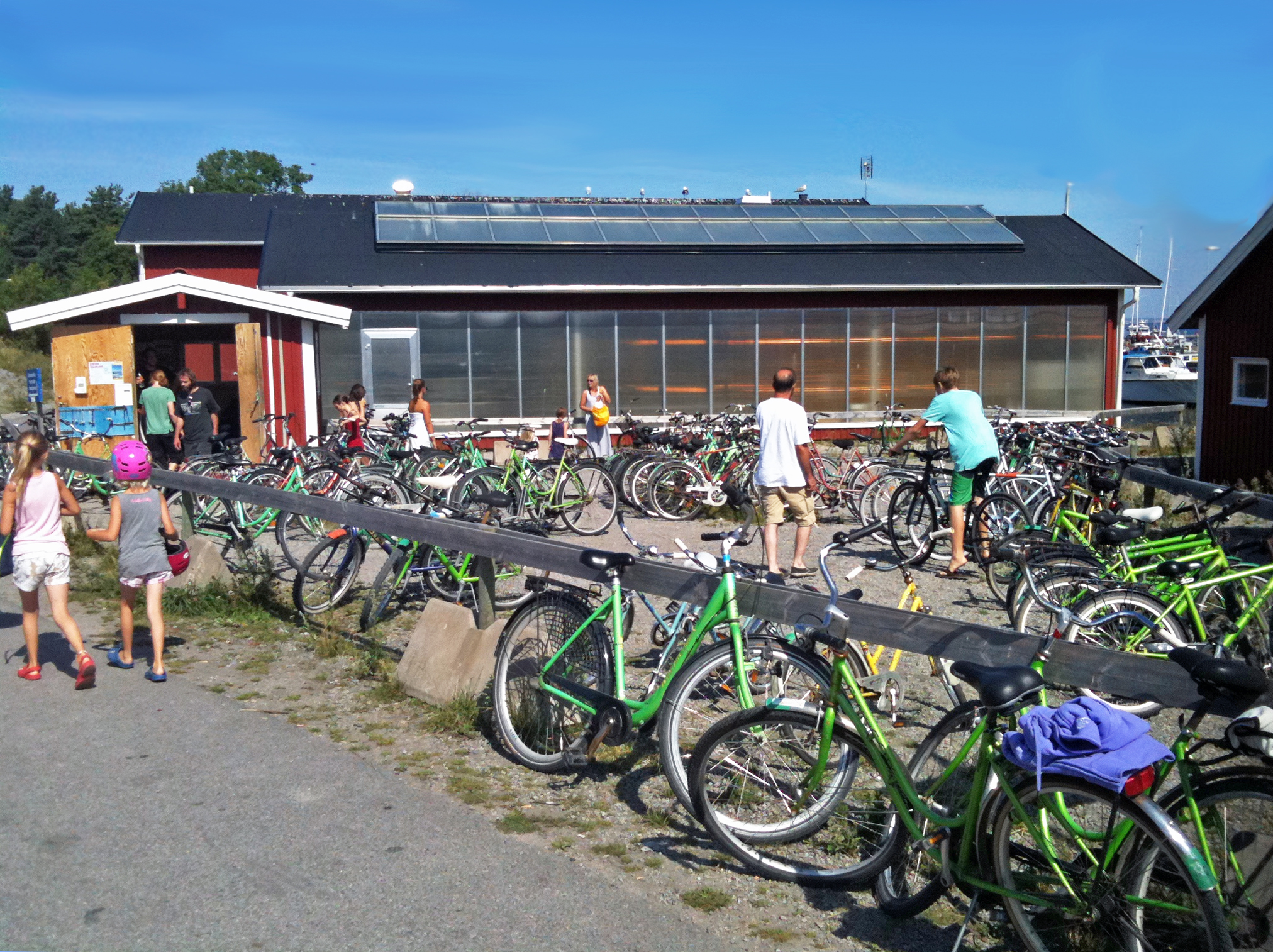 Bike rental at Ekenäs, Sydkoster, Sweden.